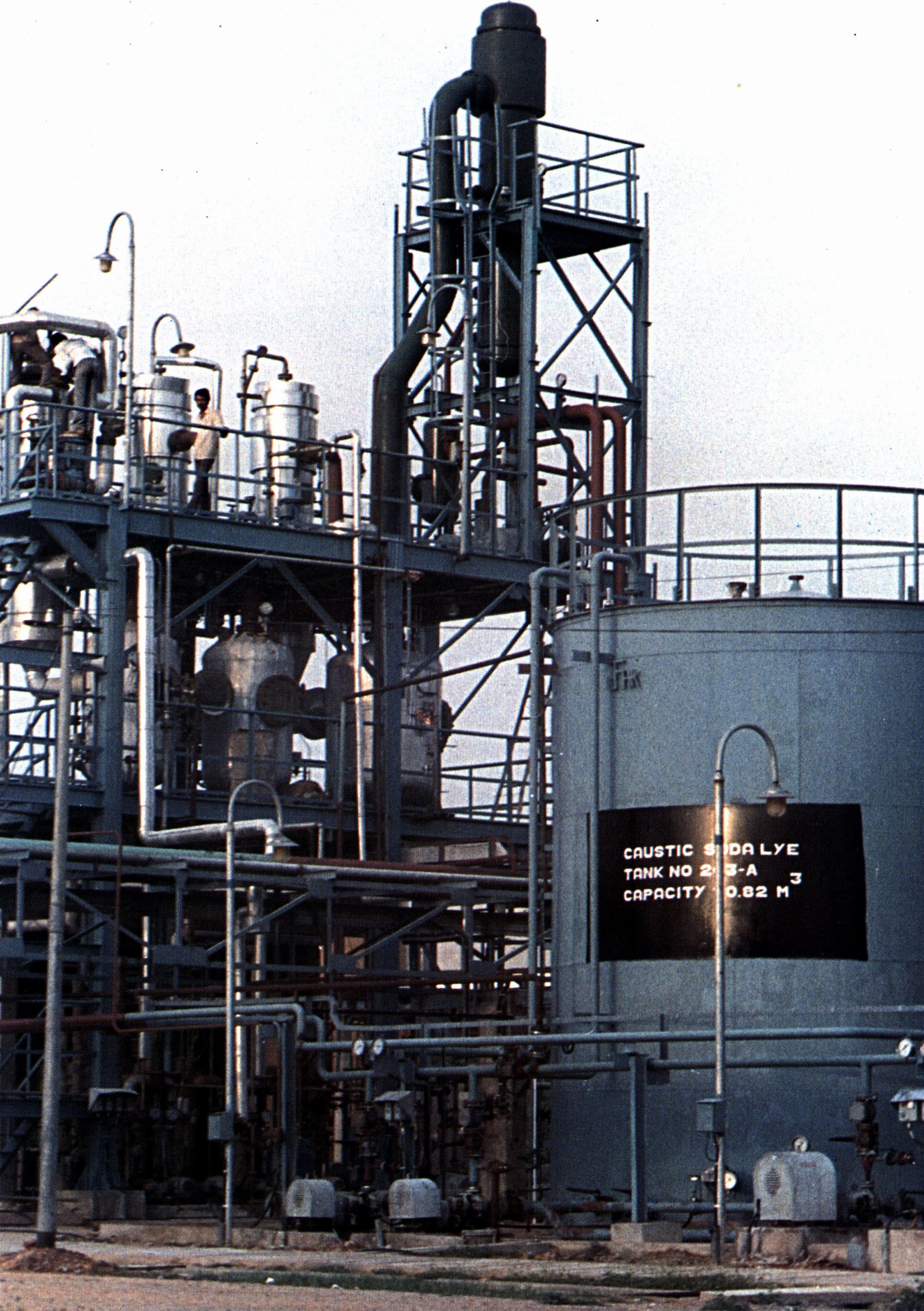 Image of a falling film evaporator for caustic soda